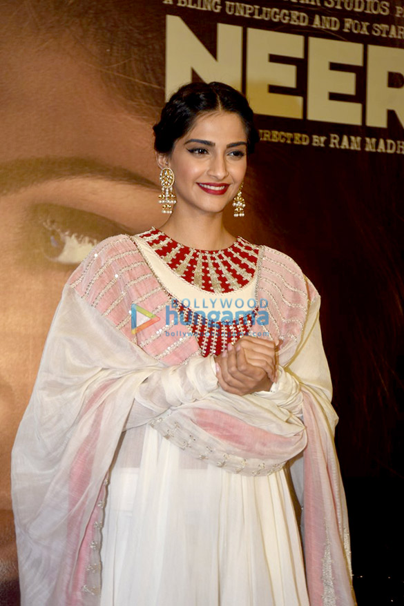 Kapoor at the success media meet of 'Neerja'